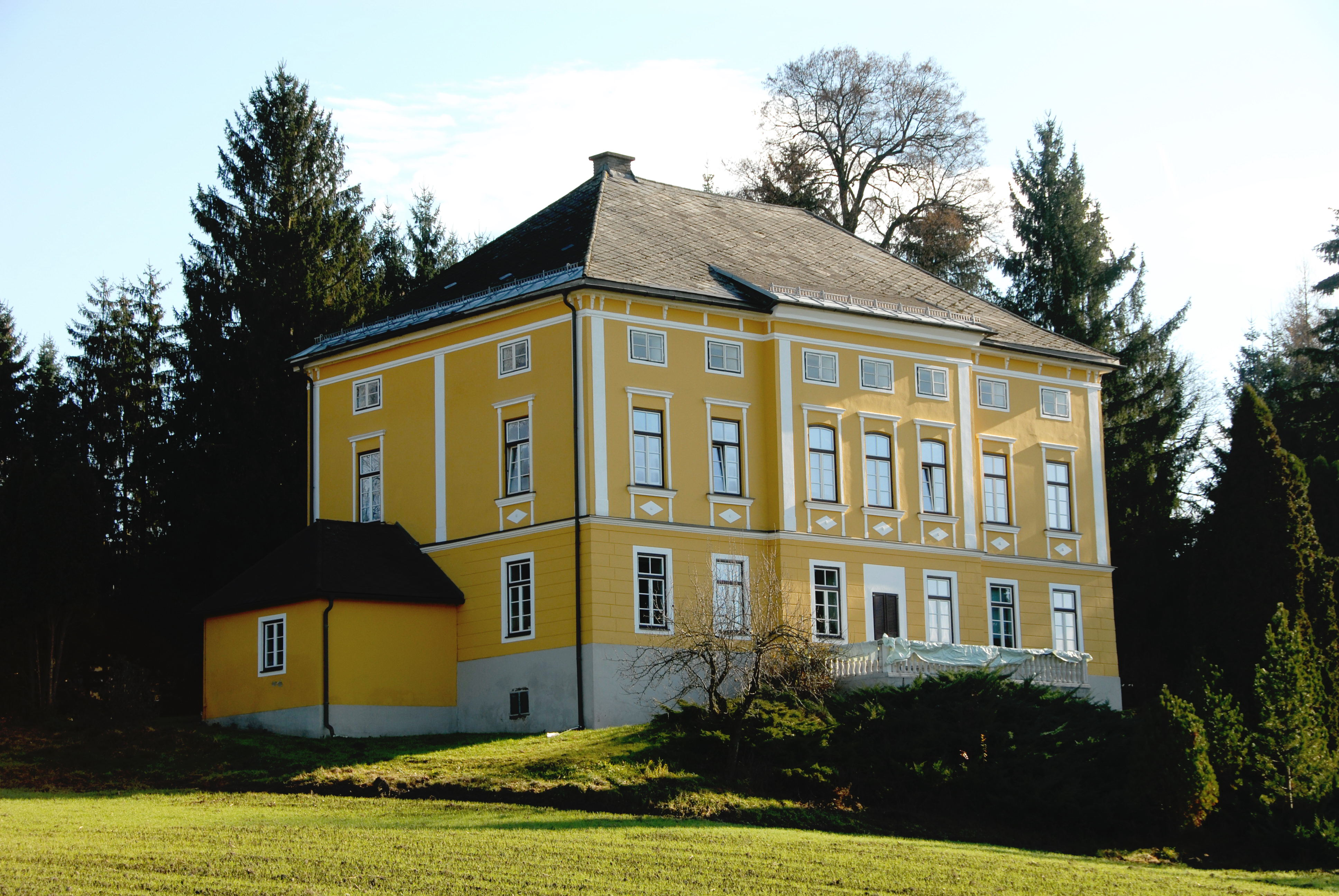 Castle Riedenegg at Lind, municipality Grafenstein, district Klagenfurt Land, Carinthia, Austria, EU